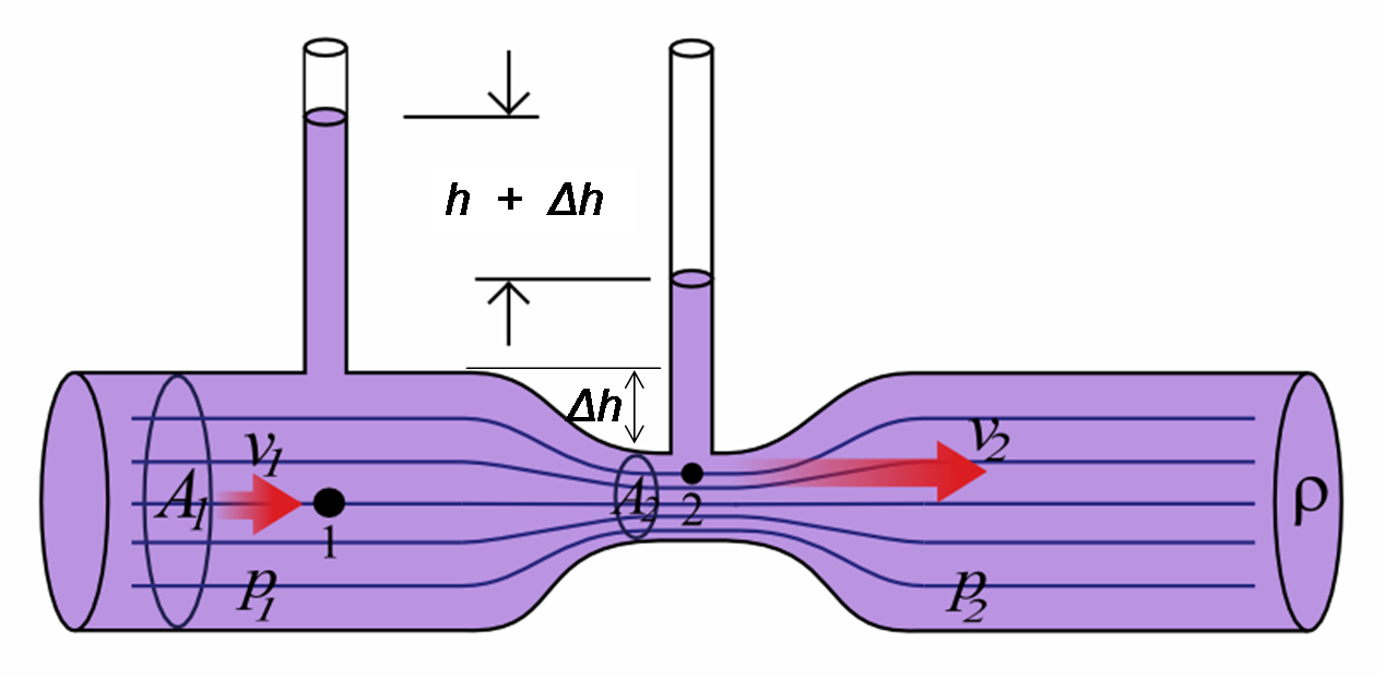 Diagram illustrating the Venturi effect